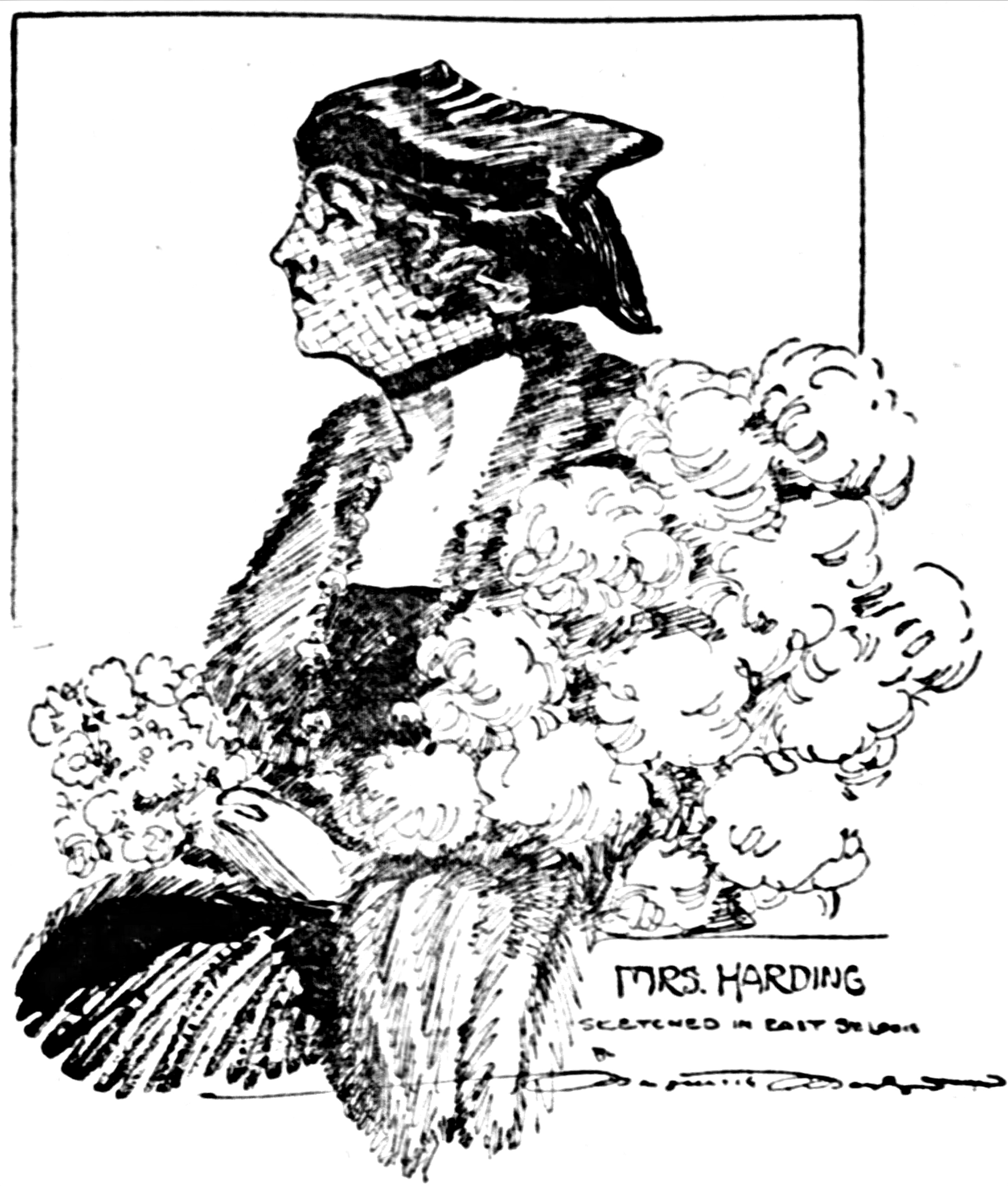 Sketch of Florence Harding, wife of President Warren G. Harding, in St. Louis